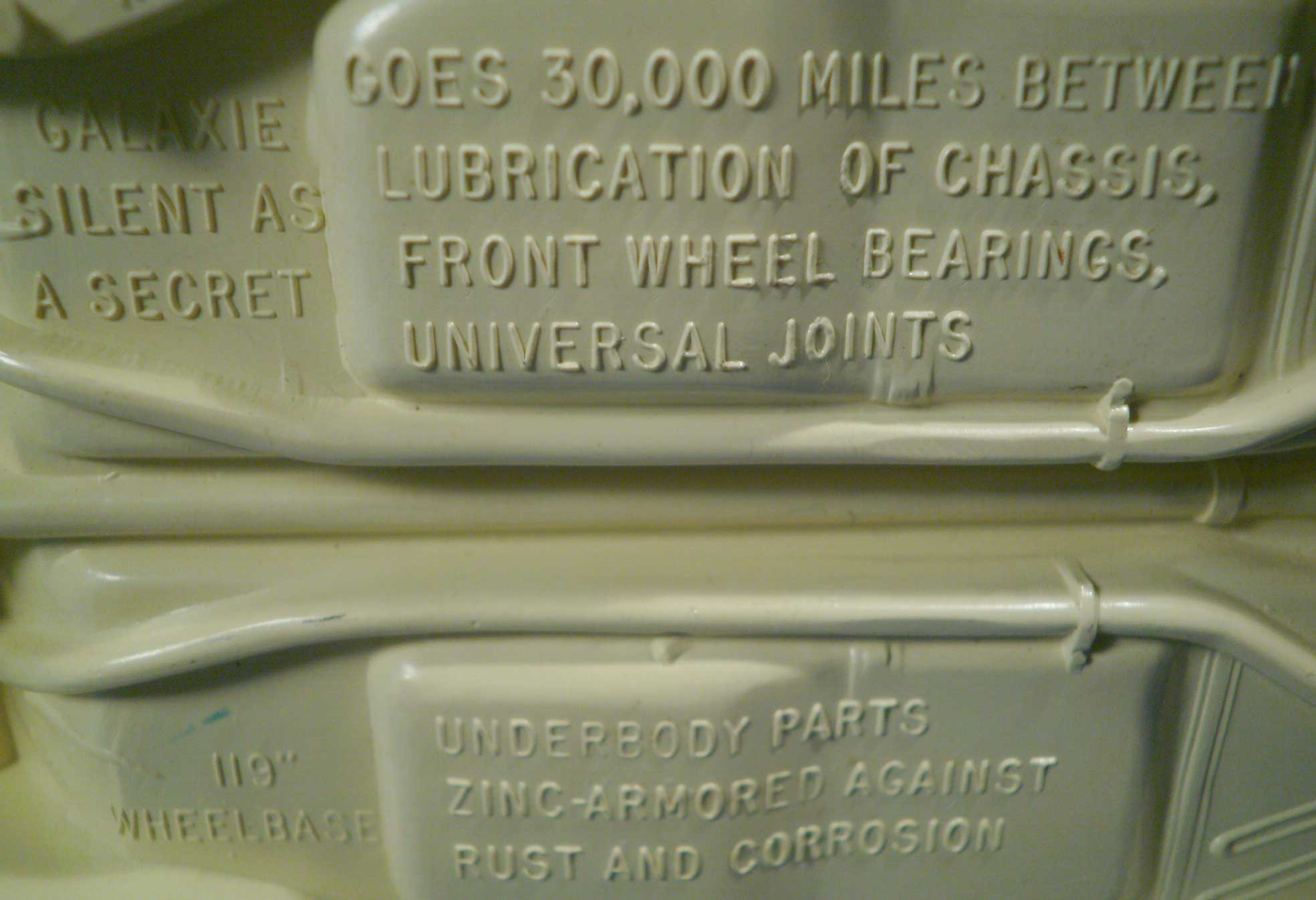 Chassis detail of AMT 1962 Ford Galaxie hardtop.